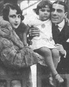 Brazilian actress Bibi Ferreira when she was a child